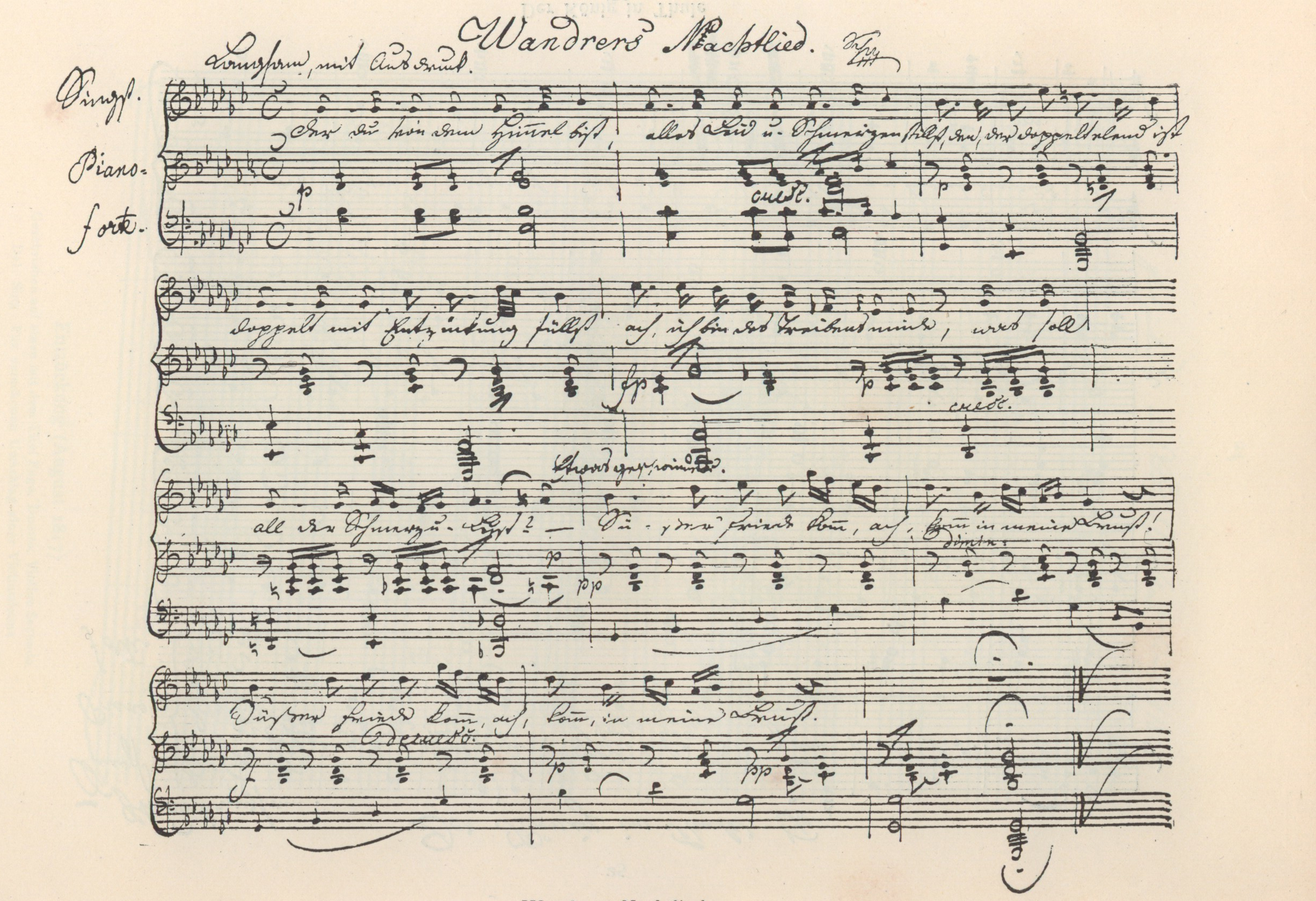 Wanderers Nachtlied Autograph Facsimile W. Dahms, 1913